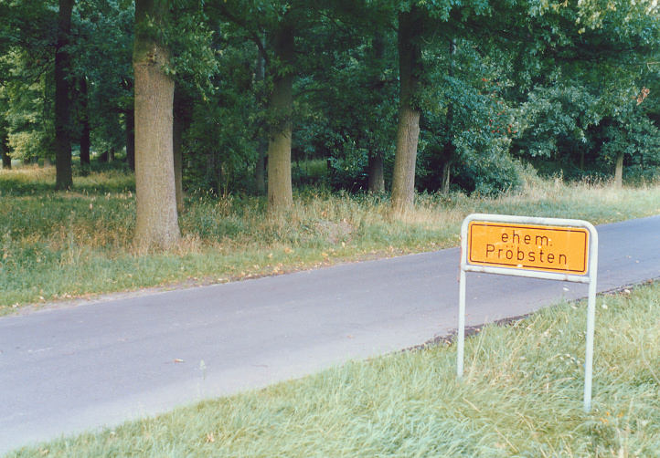 Pröbsten village sign on the new bypass road in 1985. Abandoned village in the Heidmark, Lower Saxony, Germany